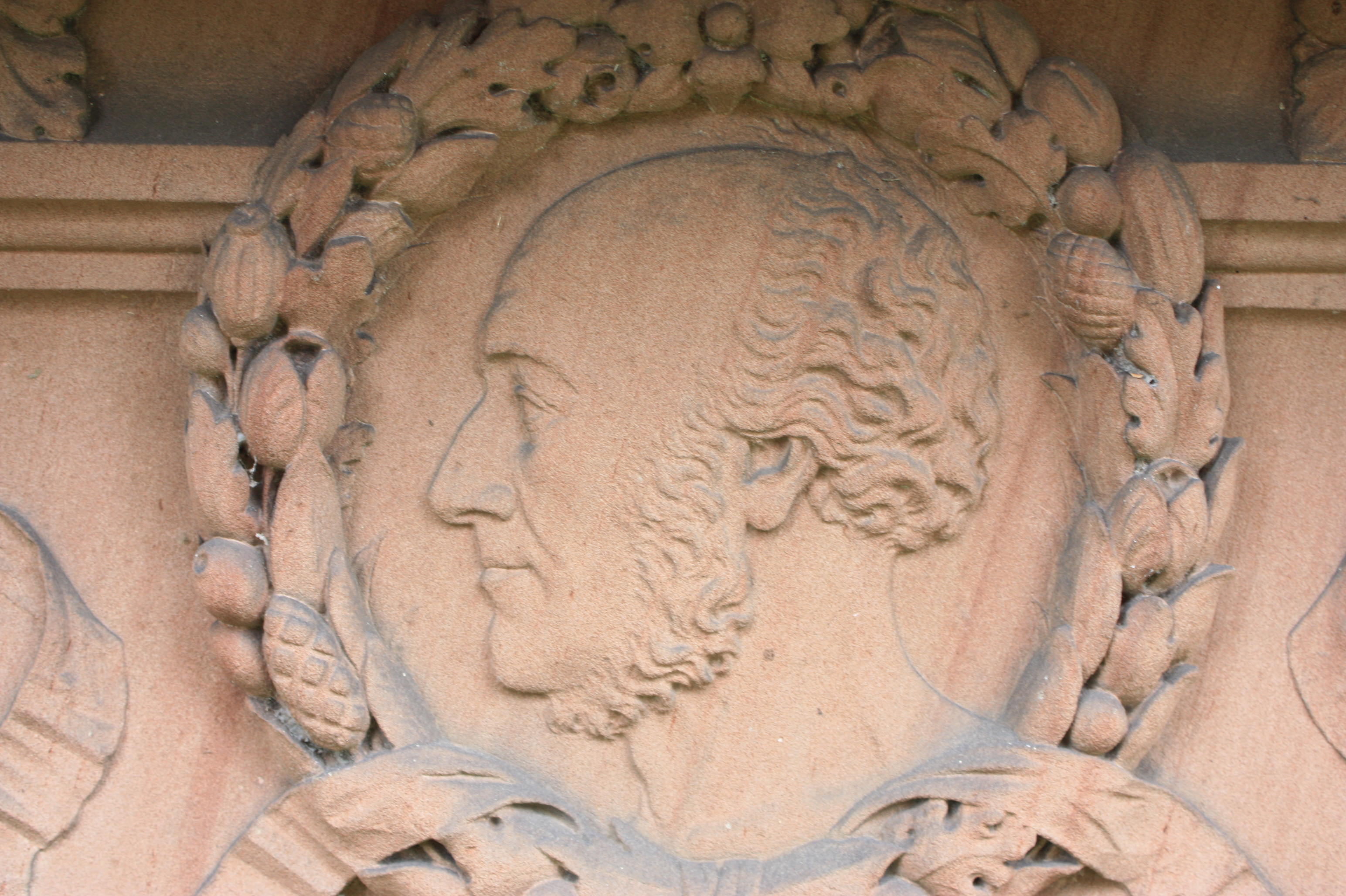 Head of Sir Patrick Fraser on his grave, Dean Cemetery